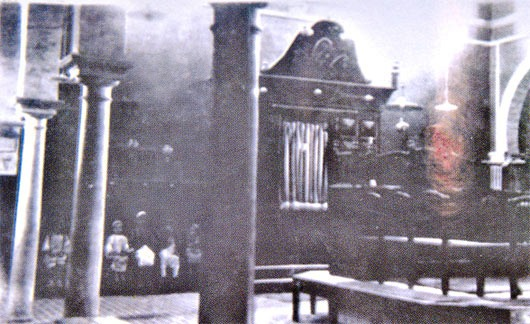 Slat Abn Shaif Synagogue in Zliten. (A picture from inside the Synagogue.)